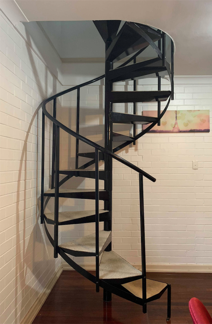 Industrial spiral staircase